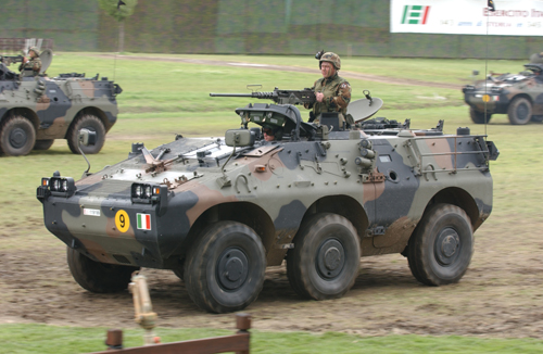 Puma Armored Personnel Carrier; Italian Army. Downloaded from the official homepage of the Italian Army.